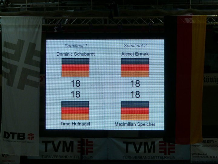 LED wall at Sporthalle Oberwerth during the 2010 World Championships in Ringtennis.